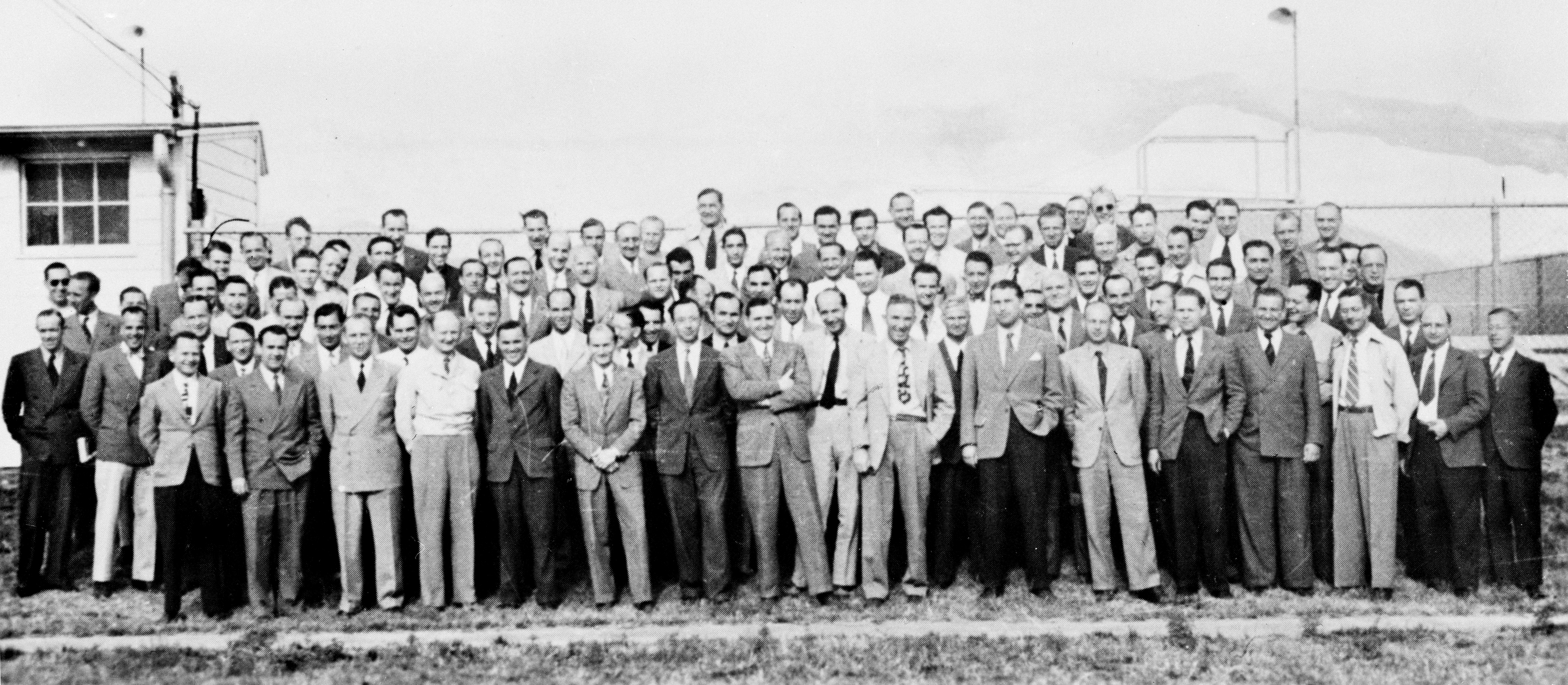 Group of 104 German rocket scientists in 1946, including Wernher von Braun,[1] Ludwig Roth and Arthur Rudolph, at Fort Bliss, Texas. The group had been subdivided into two sections: a smaller one at White Sands Proving Grounds for test launches and the larger at Fort Bliss for research.[2] Many had worked to develop the V-2 Rocket at Peenemünde Germany and came to the U.S. after World War II, subsequently working on various rockets including the Explorer 1 Space rocket and the Saturn (rocket) at NASA. Titles and Captions in Published Books Von Braun Rocket Team at Fort Bliss, Texas[3] Members of the German rocket team who worked on rockets for Army Ordnance under Paperclip are shown at White Sands Proving Ground, New Mexico, in 1946[4] Peenemünde's core personnel is reassembled at White Sands, New Mexico, in 1946.[5] Von Braun group at White Sands Proving Ground, 1946[6]